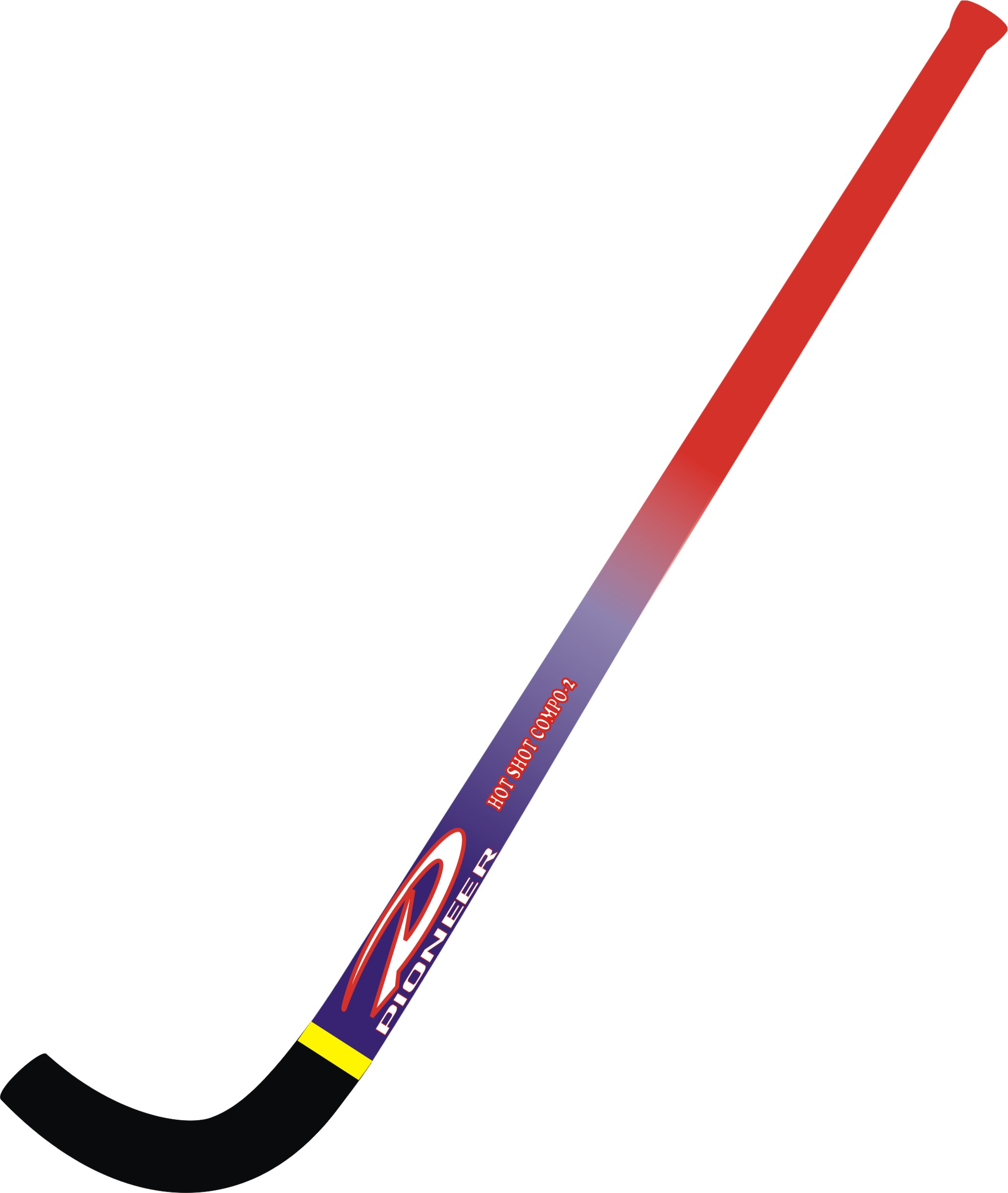 player stick